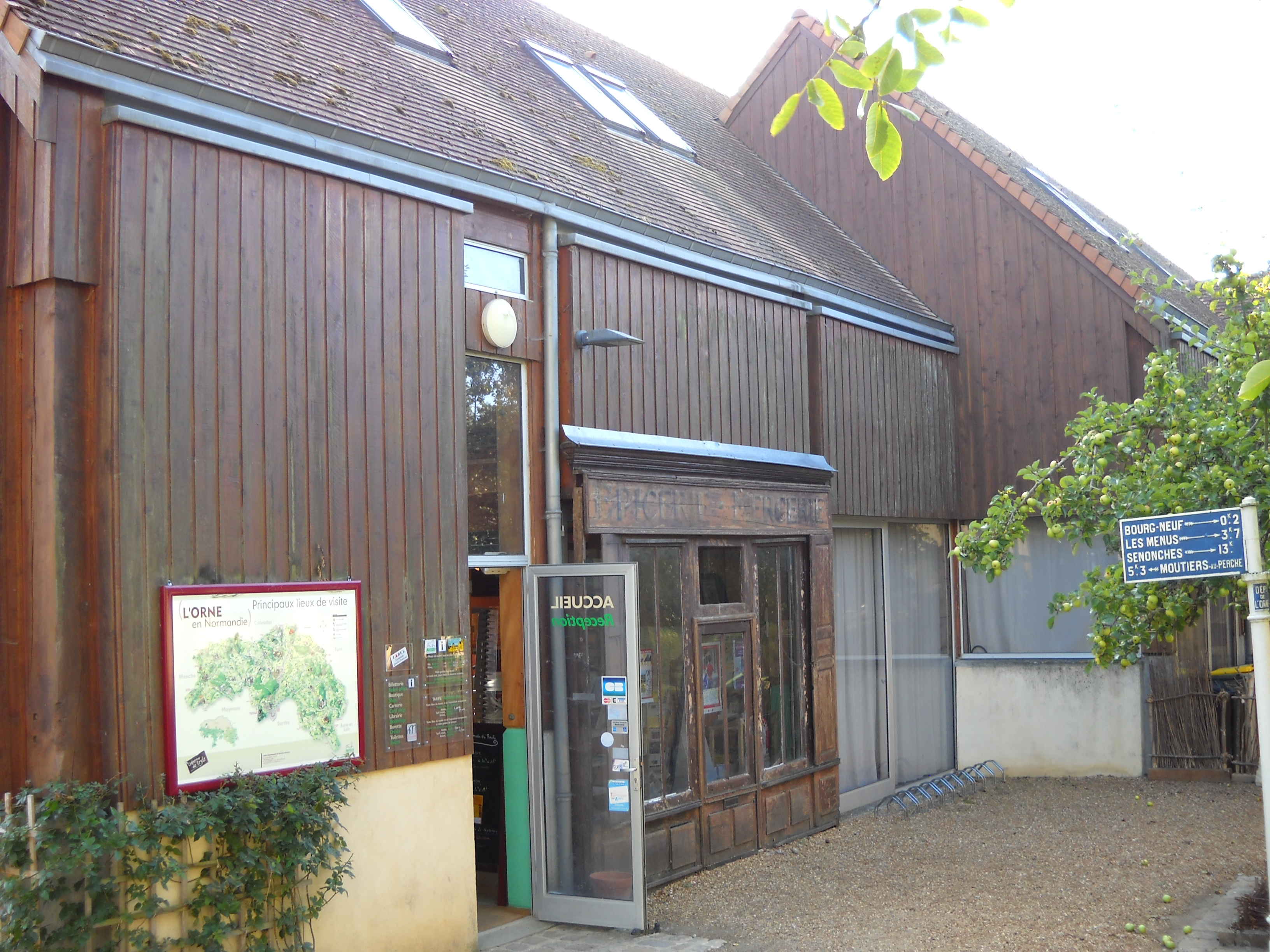 An ecomuseum in Saint-Cyr-la-Rosière, Orne, France.